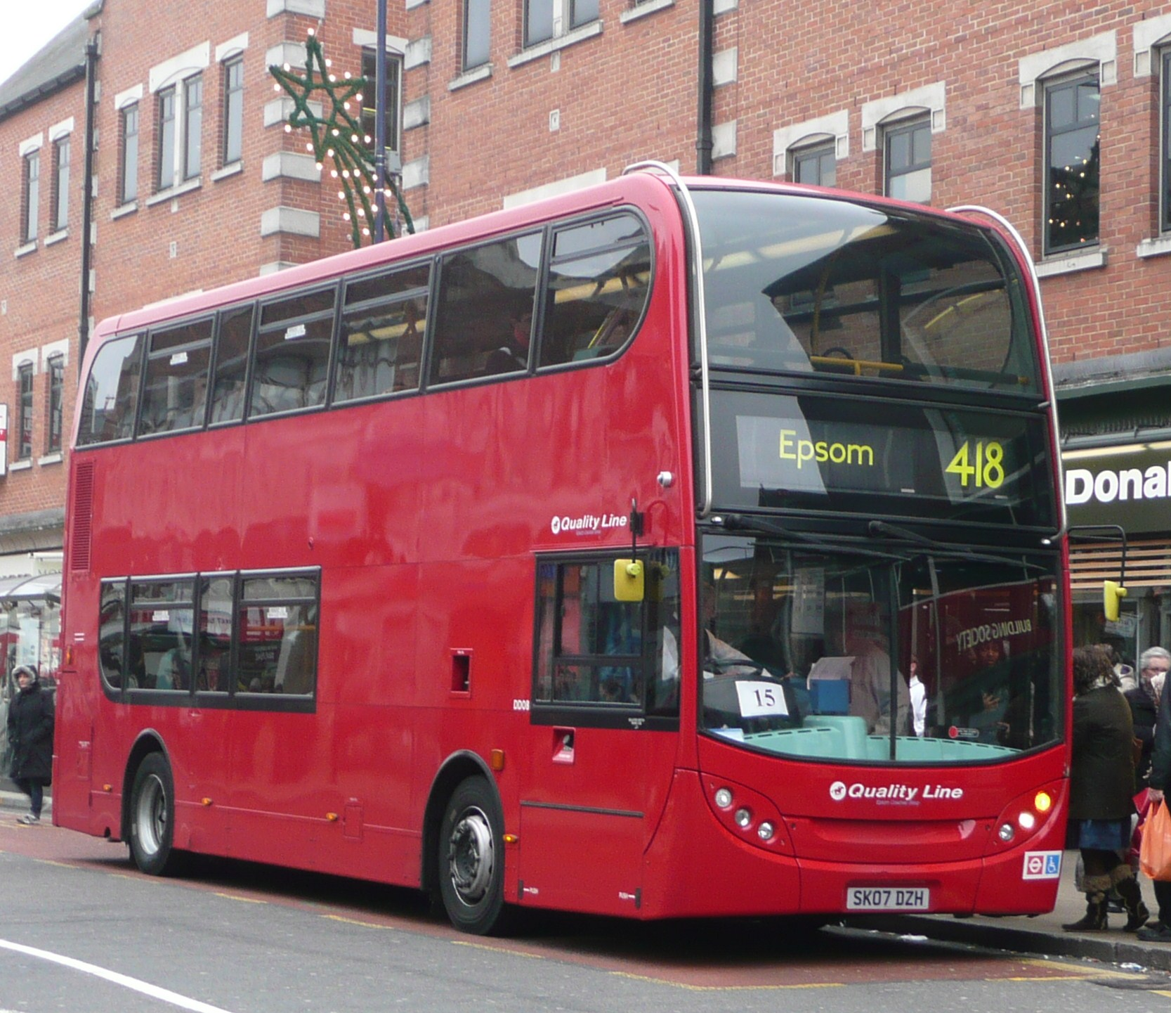 Quality Line's DD08 (SK07 DZH), an Alexander Dennis Enviro400 in Kingston on route 418.